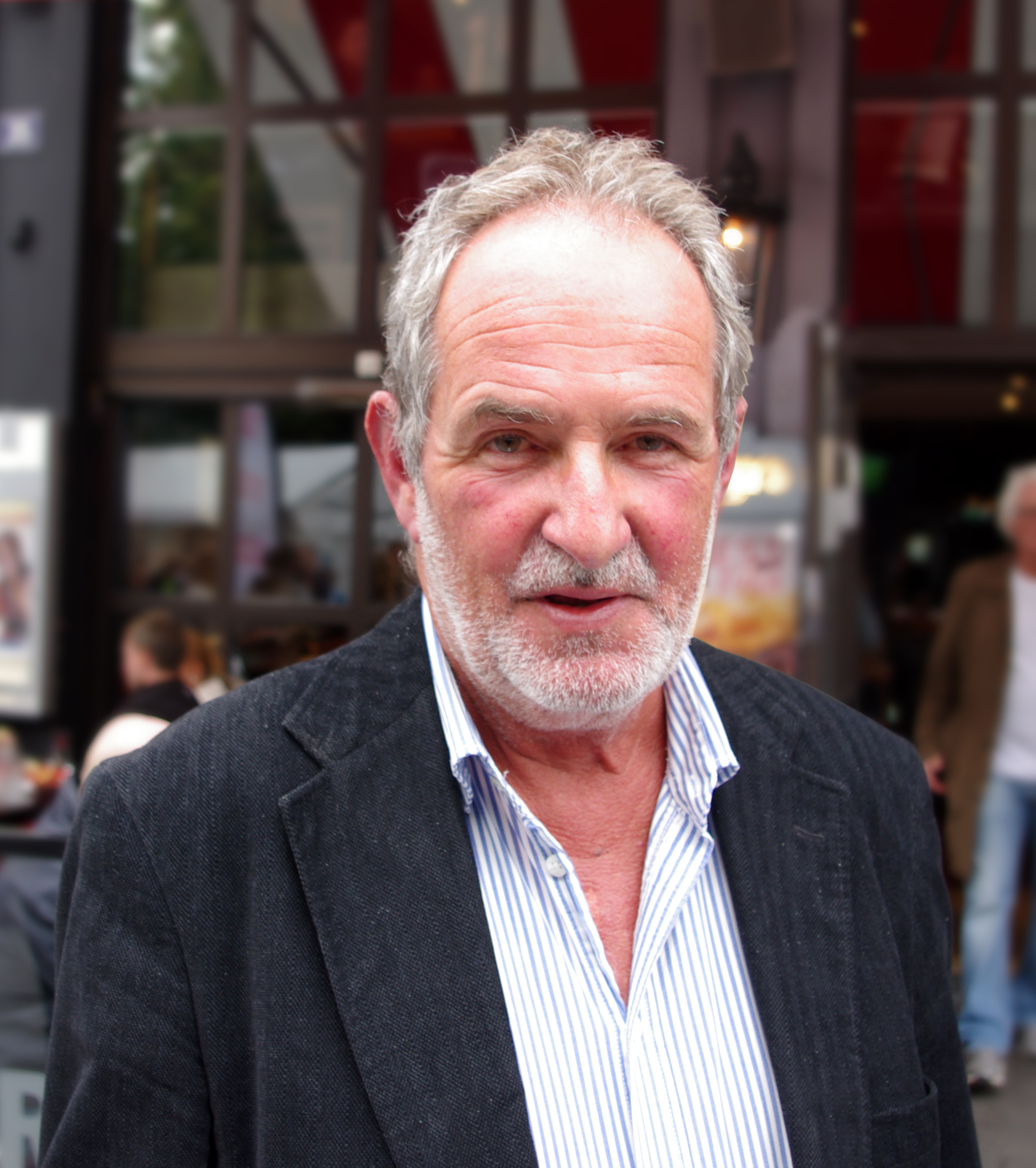 Portrait of Norwegian writer at Oslo bokfestival 2011